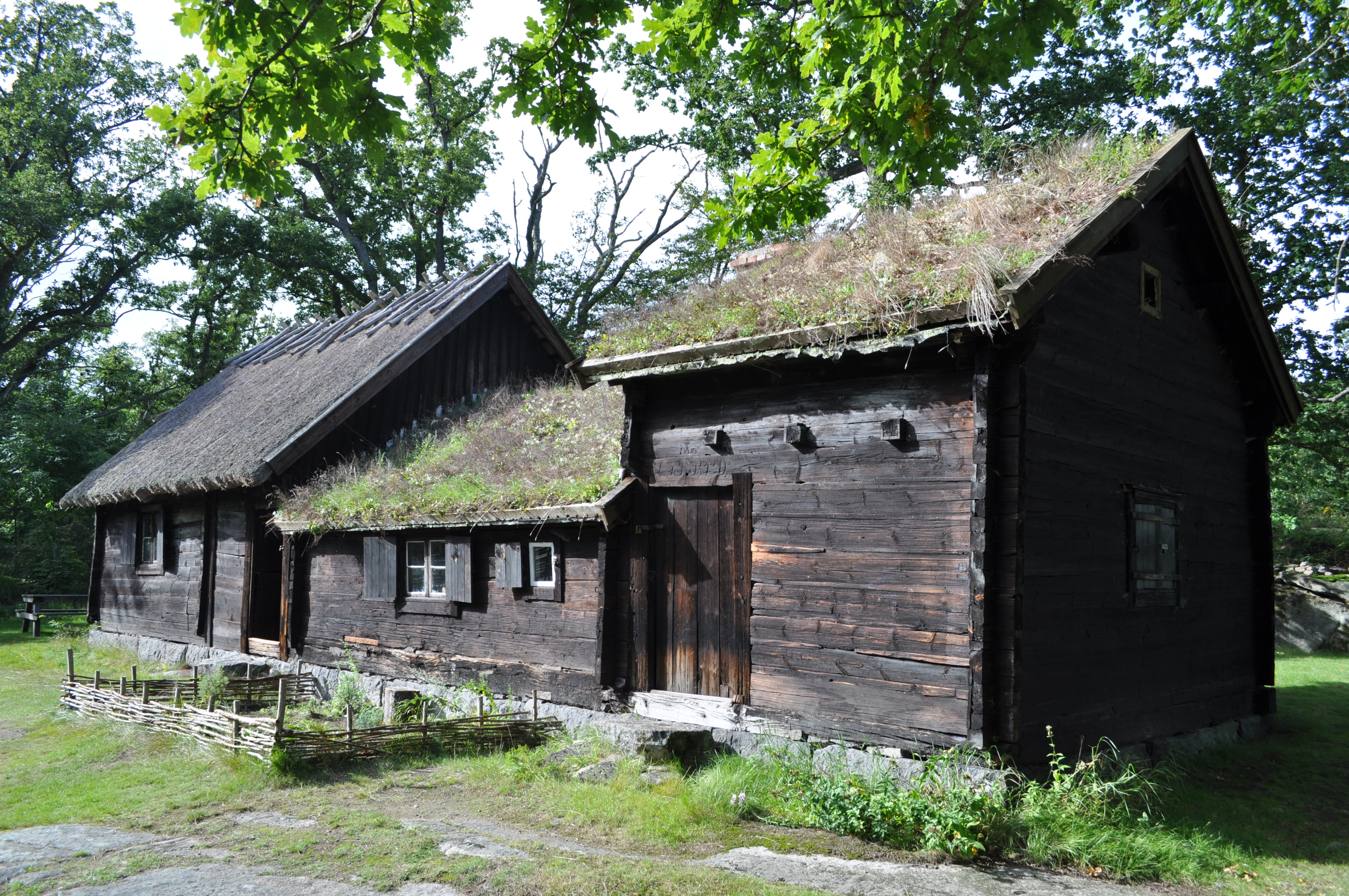 Sydgötiska huset or högloftstuga - Blekingestuga in Vämöparken - Blekinge museum, Karlskrona